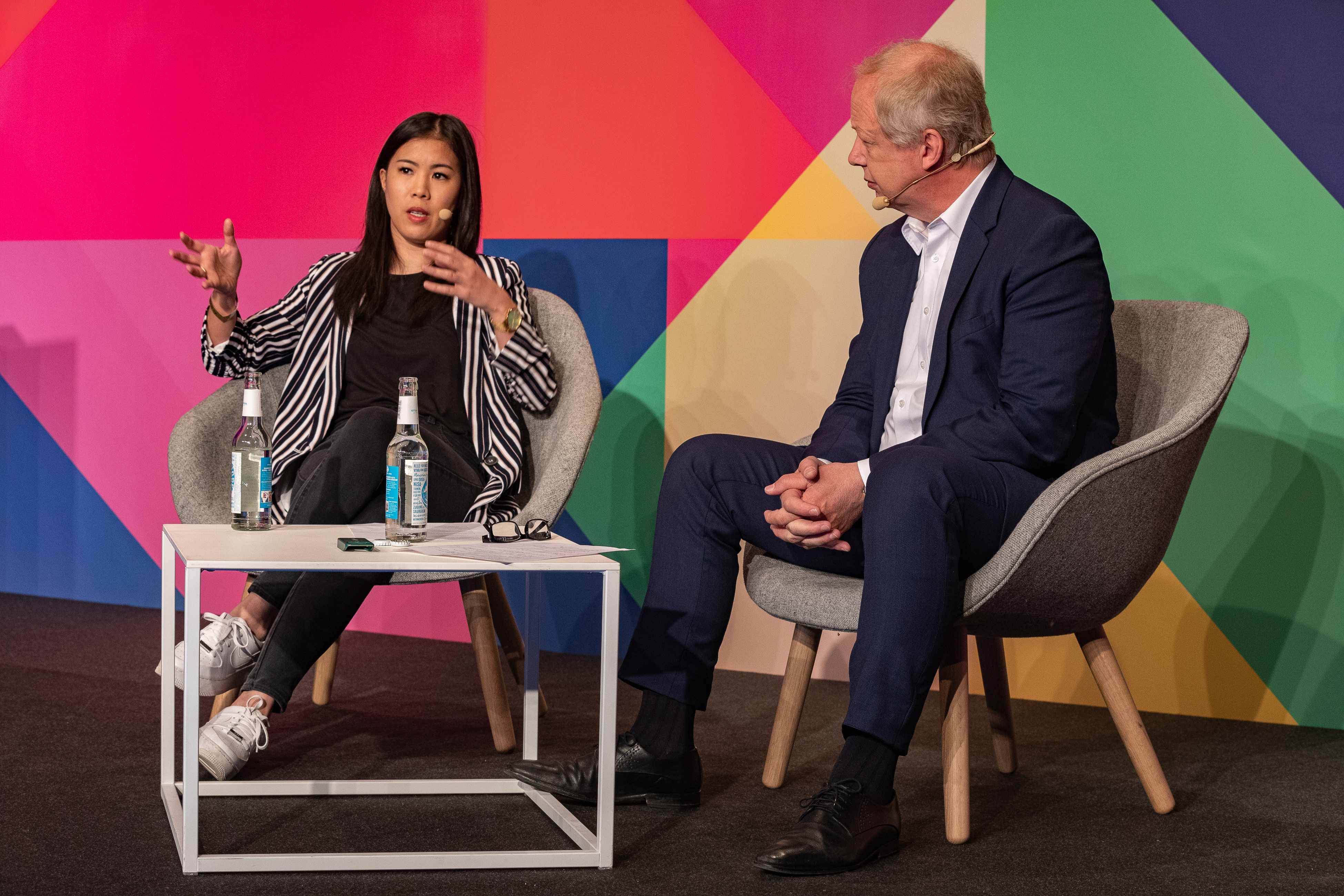 Mai Thi Nguyen-Kim und Tom Buhrow at the :Re:publica 19